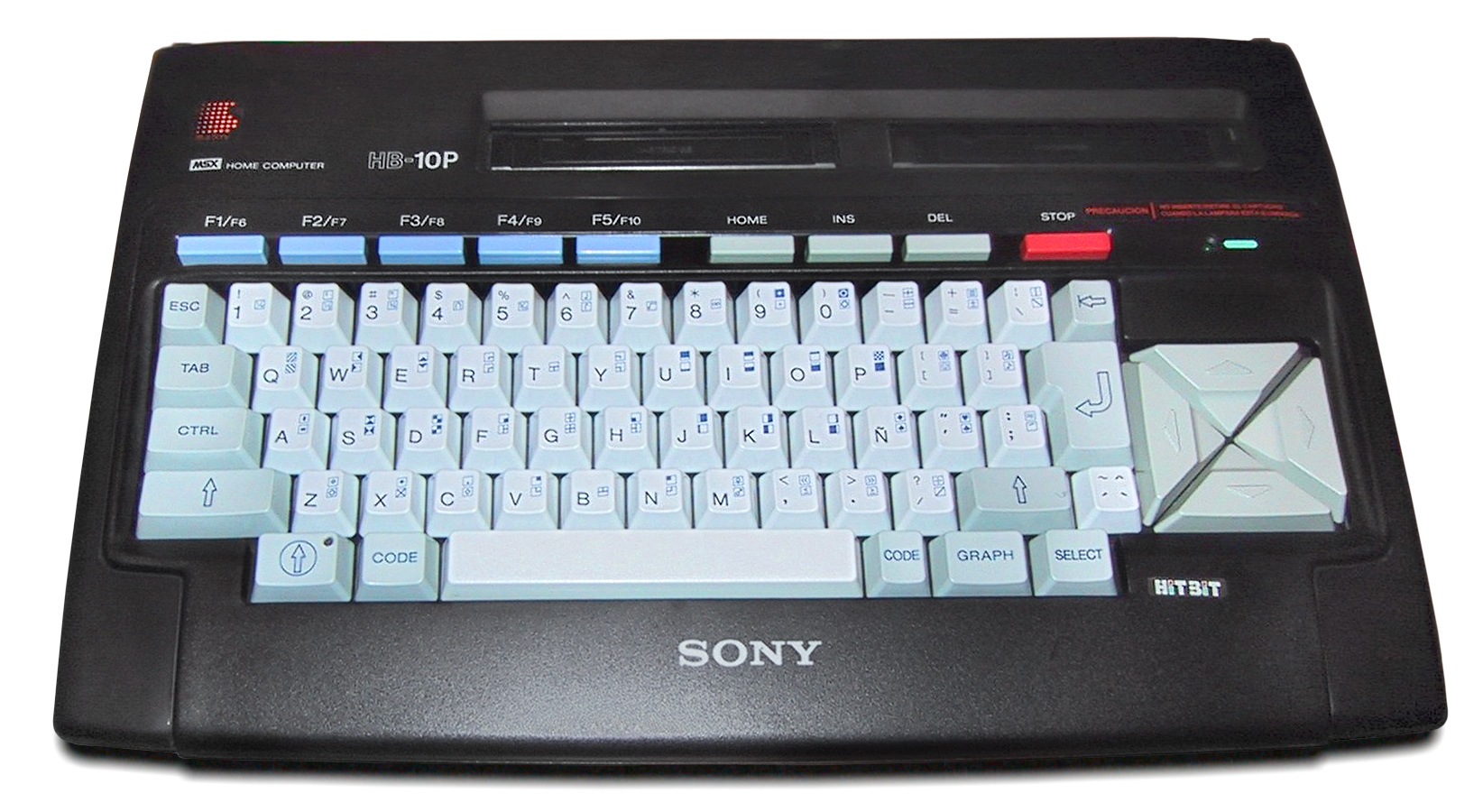 This is the picture of a Sony MSX HitBit-10-P / HB-10P the photographer bought in the 1980s in Barcelona, Spain.